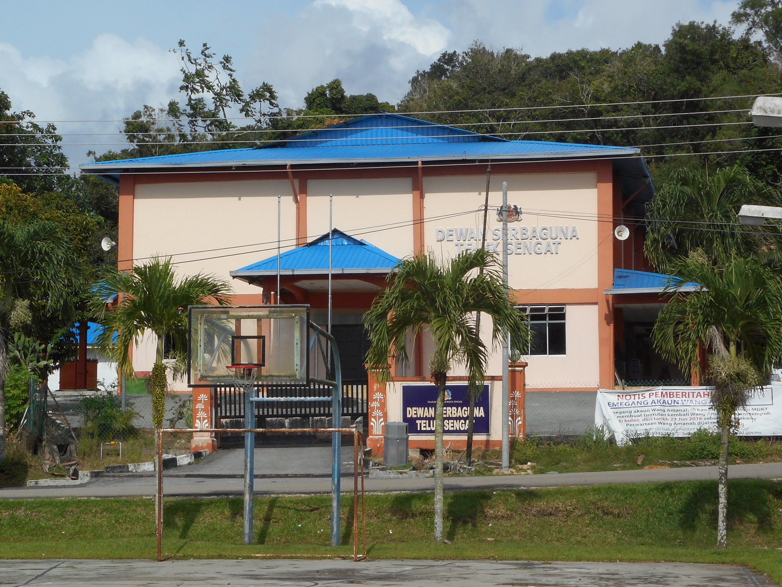 Teluk Sengat Multipurpose Hall, Teluk Sengat, Kota Tinggi, Johor, Malaysia